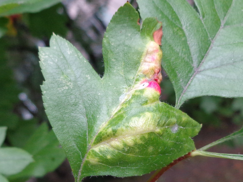 Dysaphis crataegi on Crataegus laevigata. Found in Rīga town, Latvia